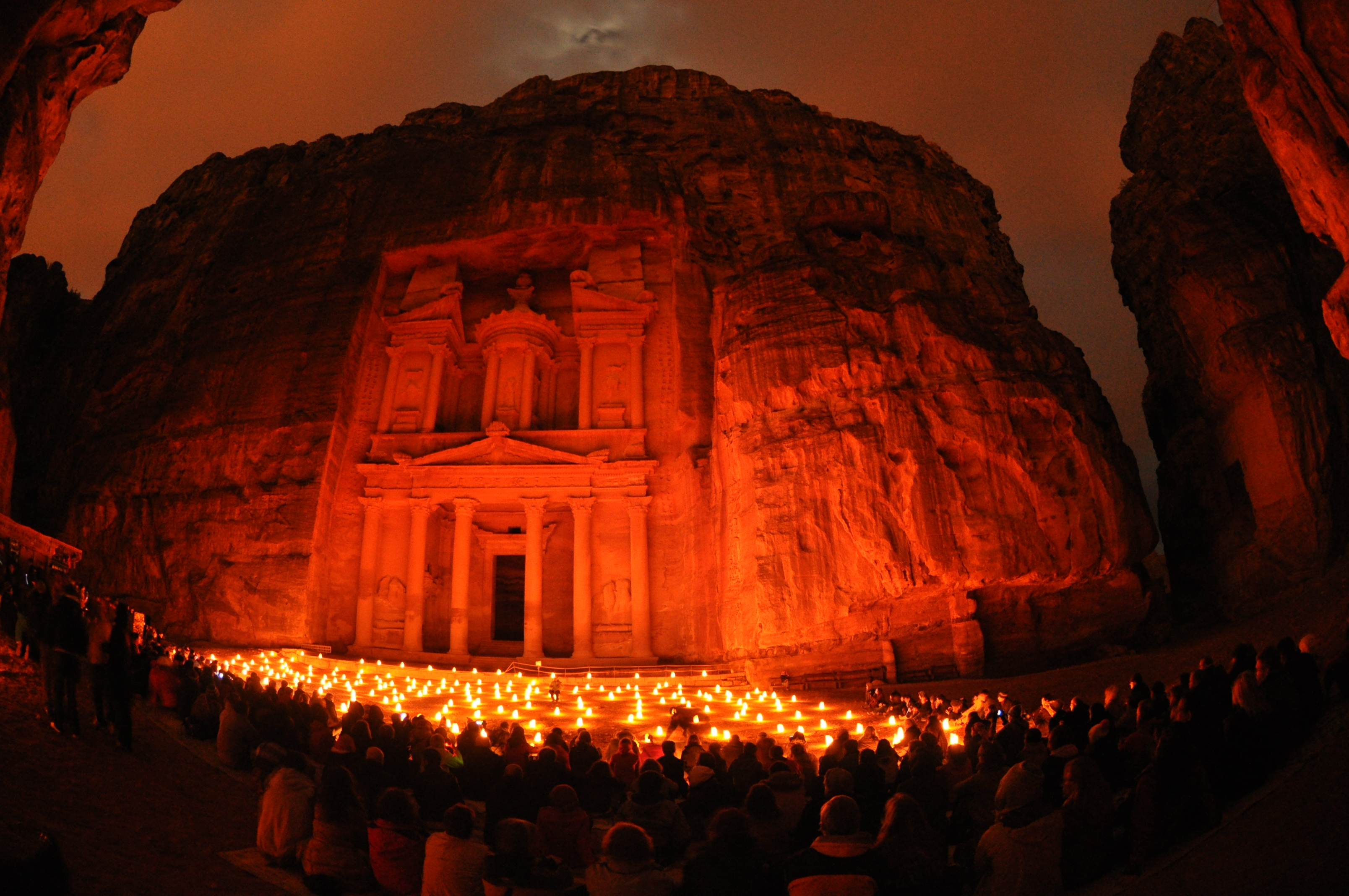 Petra